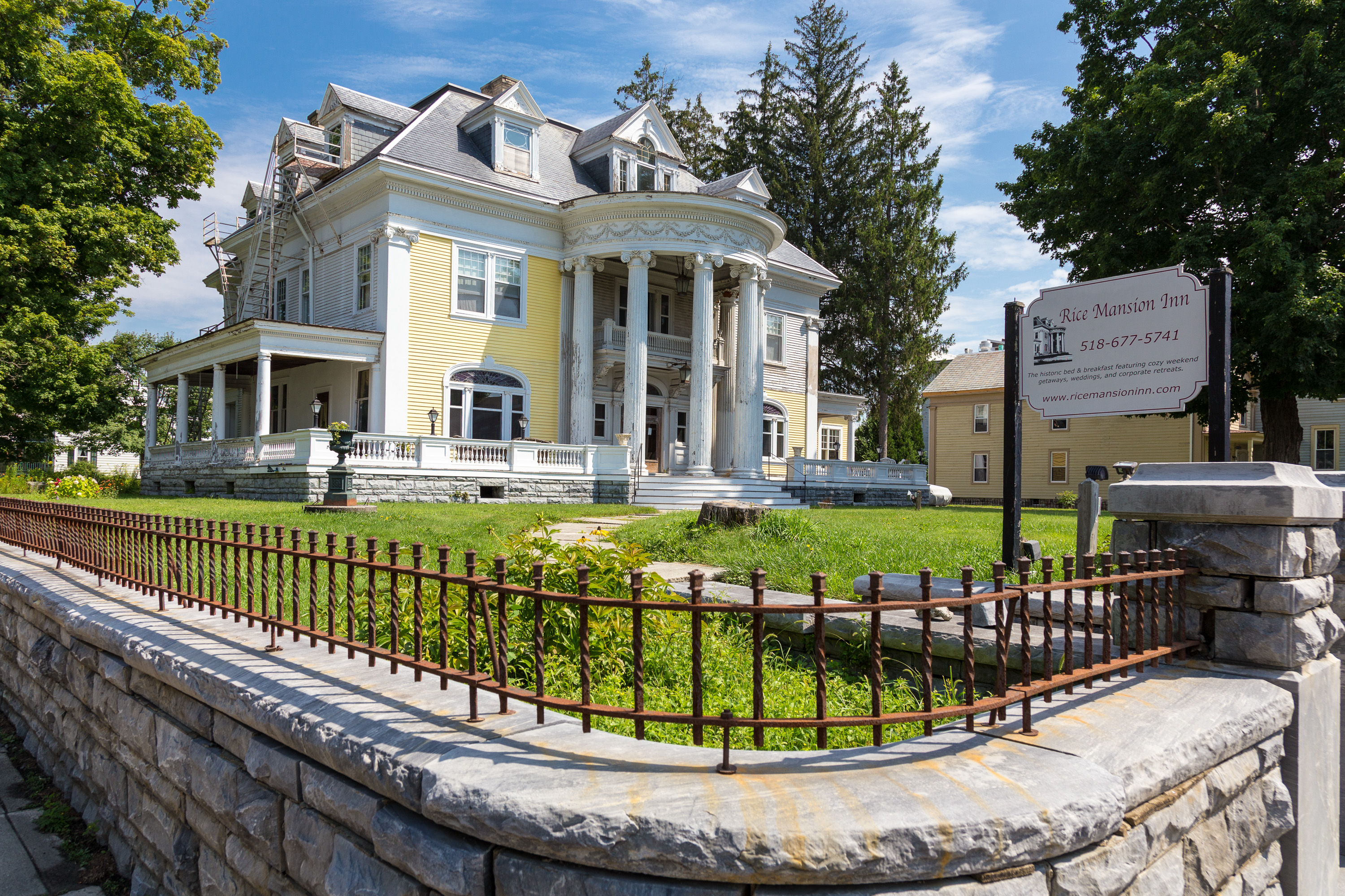 Rice Mansion Inn was built in 1903 for seed tycoon of-the-era, Jerome B. Rice, and his wife Laura. Cambridge, New York. Part of Cambridge Historic District, NRHP 78001922.